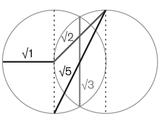 Model showing the various square roots found in the vesica piscis.